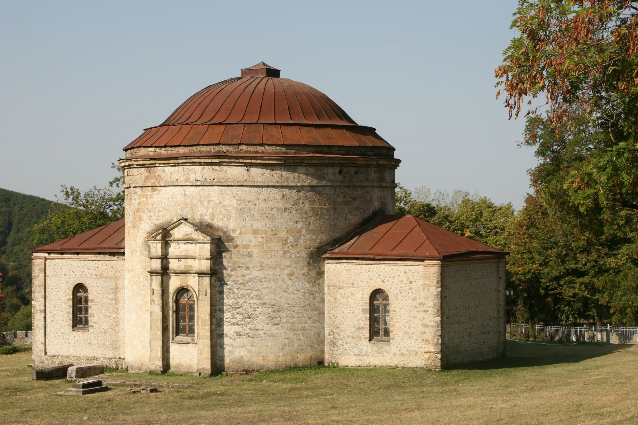 A 6th-century Caucasian Albanian church in Shaki, Azerbaijan. Now a museum of national folk art.